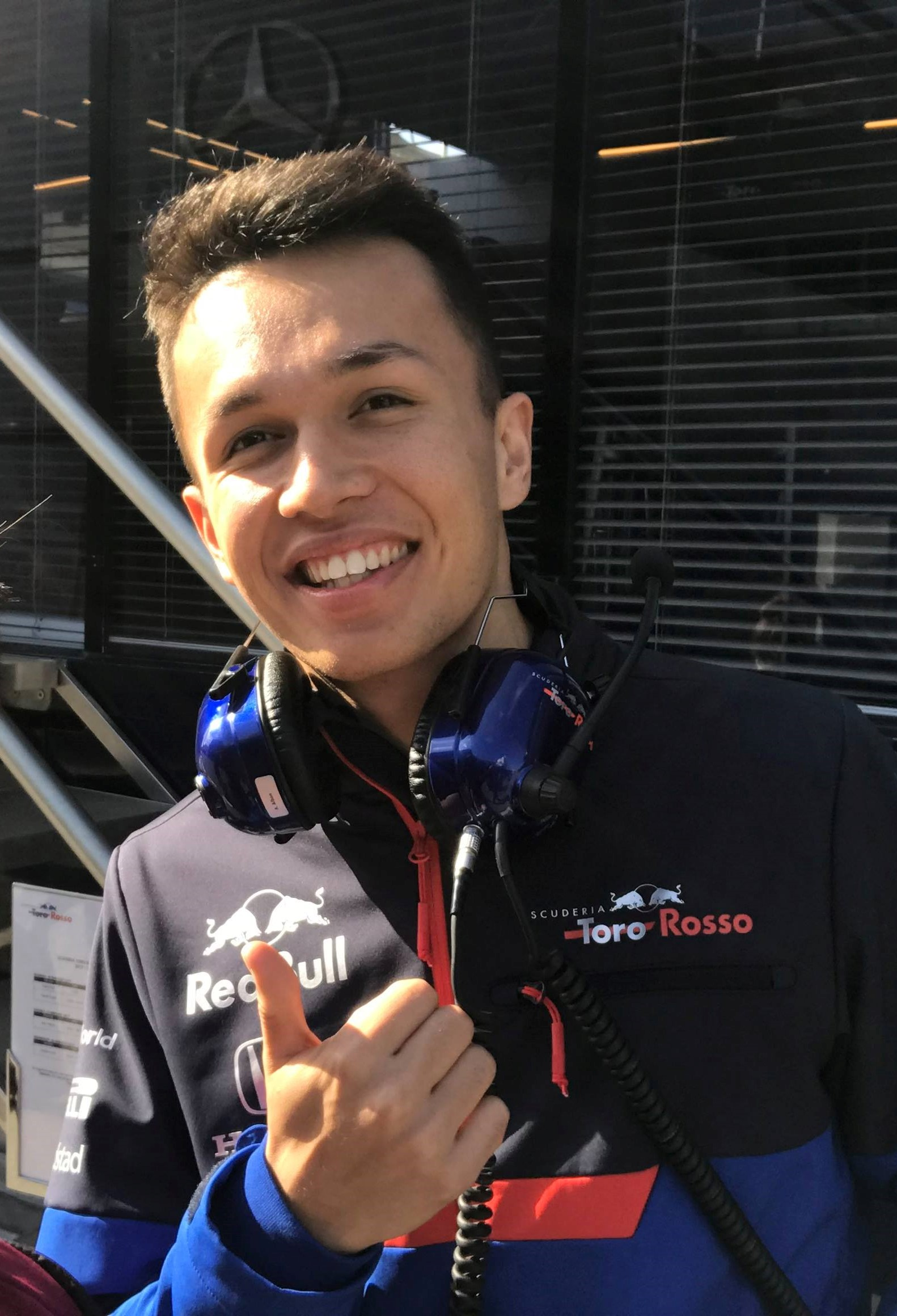 2019 Formula One tests Barcelona, Albon.